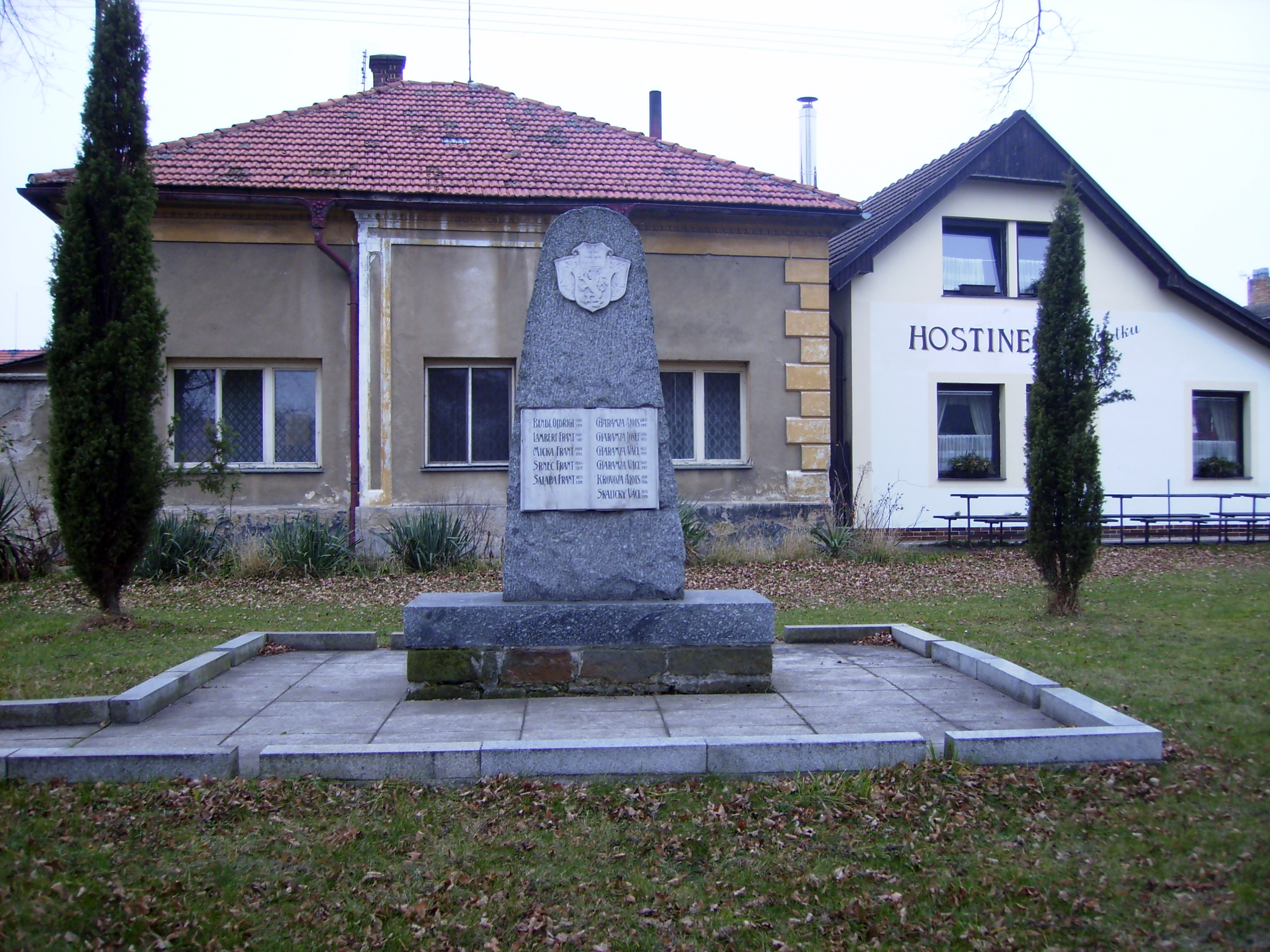 Monument of heroes of Starý Vestec, Central bohemia, Czech Republic